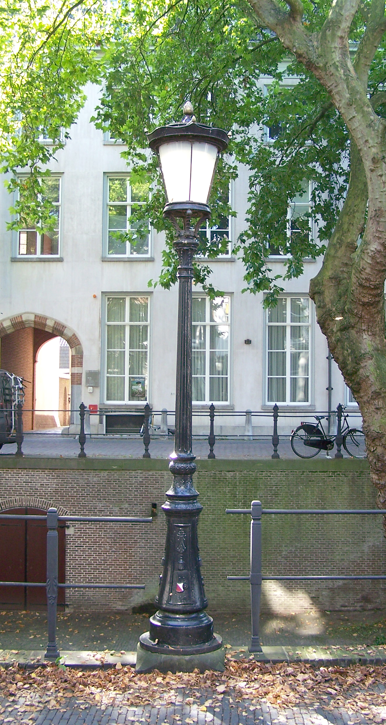 Streetlight at the Nieuwegracht in Utrecht. Originally a gaslight placed in the 19th century, but in 1950 restyled by artist Pyke Koch.